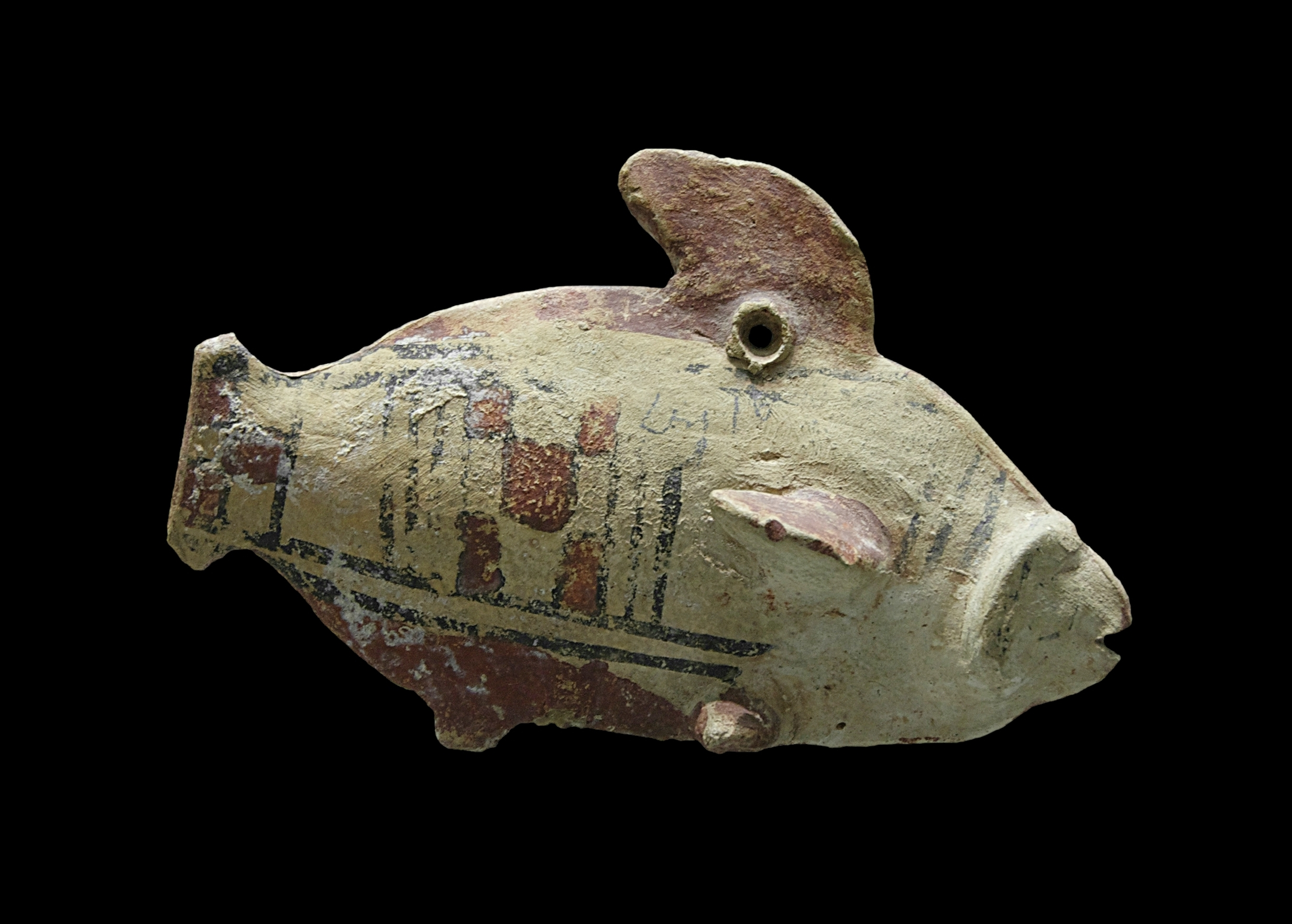 Picture taken without support, through a glass